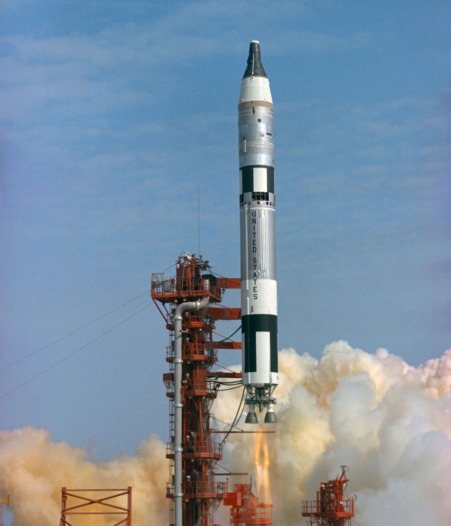 Launching of the first manned Gemini flight. The Gemini-Titan 3 lifted off pad 19 at 9:24 a.m. (EST) on March 23, 1965. The Gemini-3 spacecraft "Molly Brown" carried astronauts Virgil I. Grissom, command pilot, and John W. Young, pilot, on three orbits of Earth.